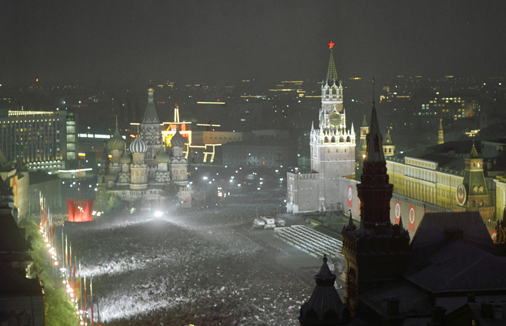 “Celebrating Victory Day on Red Square”. Celebrating thirtieth anniversary of the Soviet Union's victory in the 1941-1945 Great Patriotic War against Nazi Germany on Moscow's Red Square.